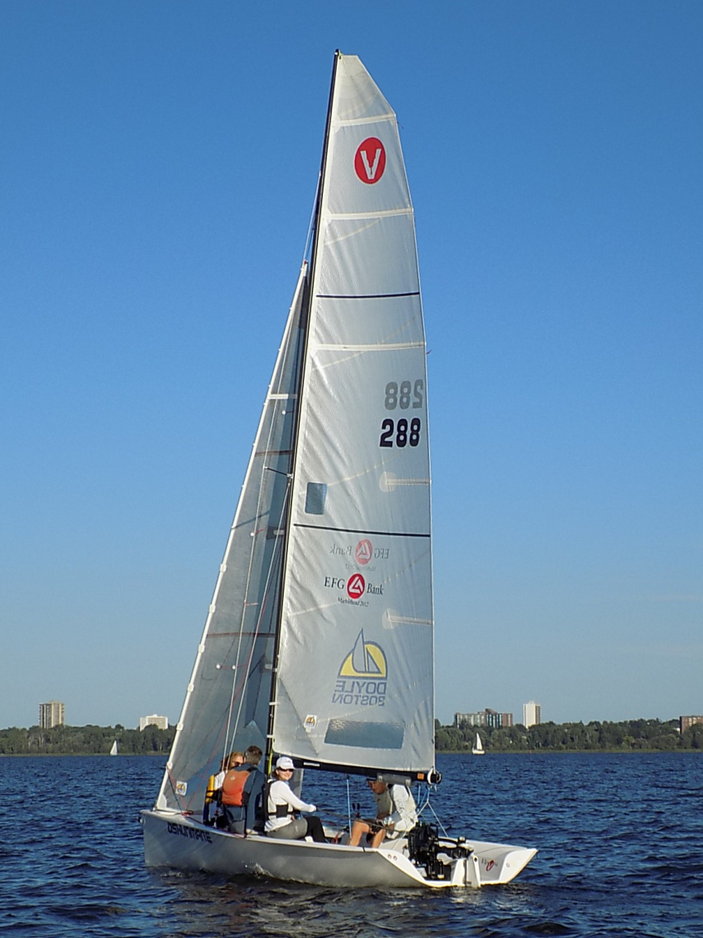 A Viper 640 sailboat sailboat.